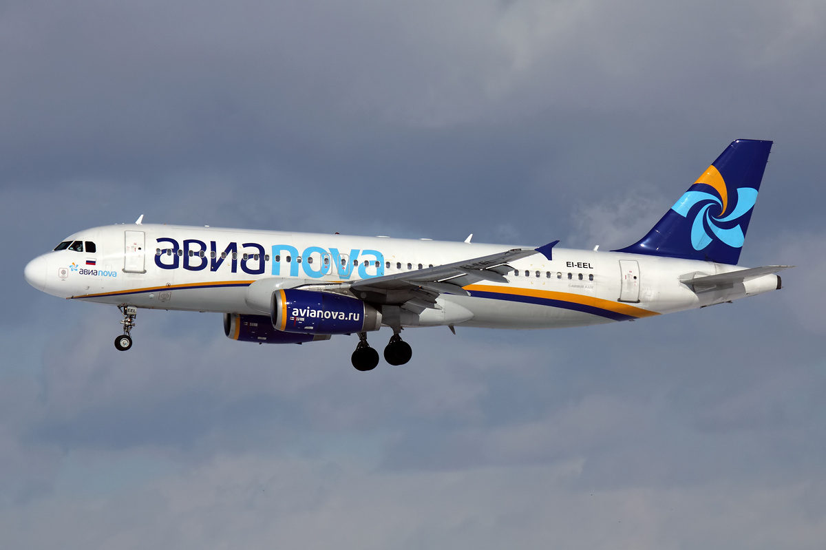 An Avianova Airbus A320-232 at Pulkovo Airport (LED / ULLI)